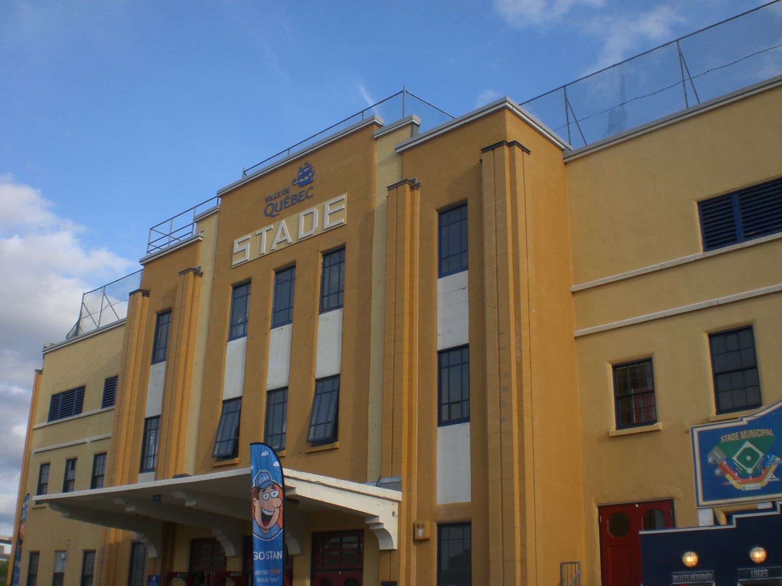 Home of the Quebec Capitales